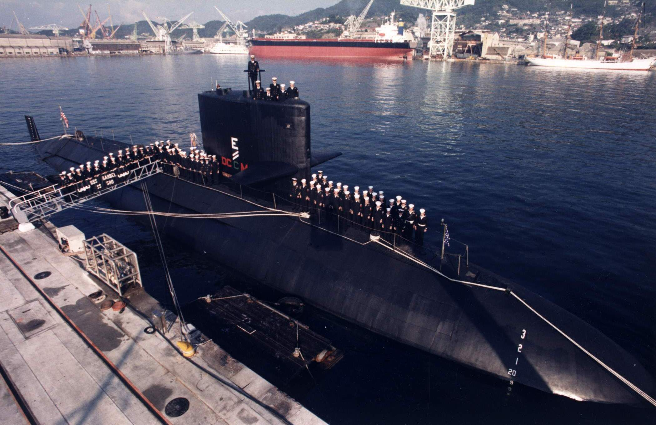 Crew members man the rails aboard the attack submarine Barbel (SS-580) on 24 Oct 1988 on her last day in active service, on 24 Oct 1988.